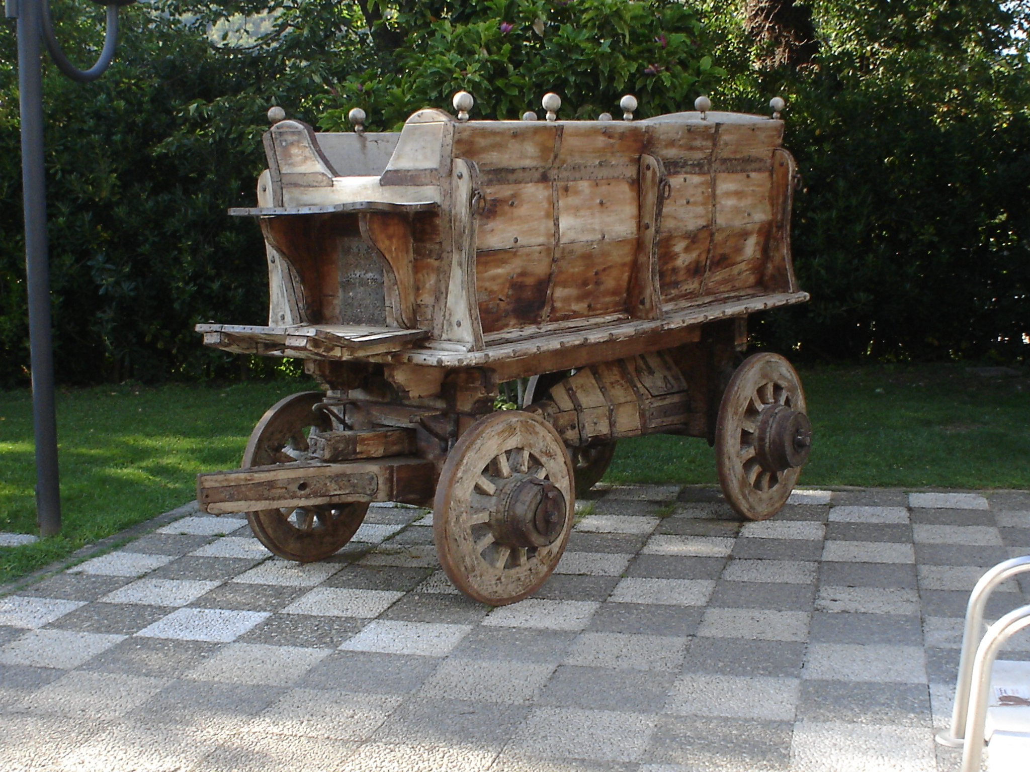 Four-wheeled wagon drawn by animals